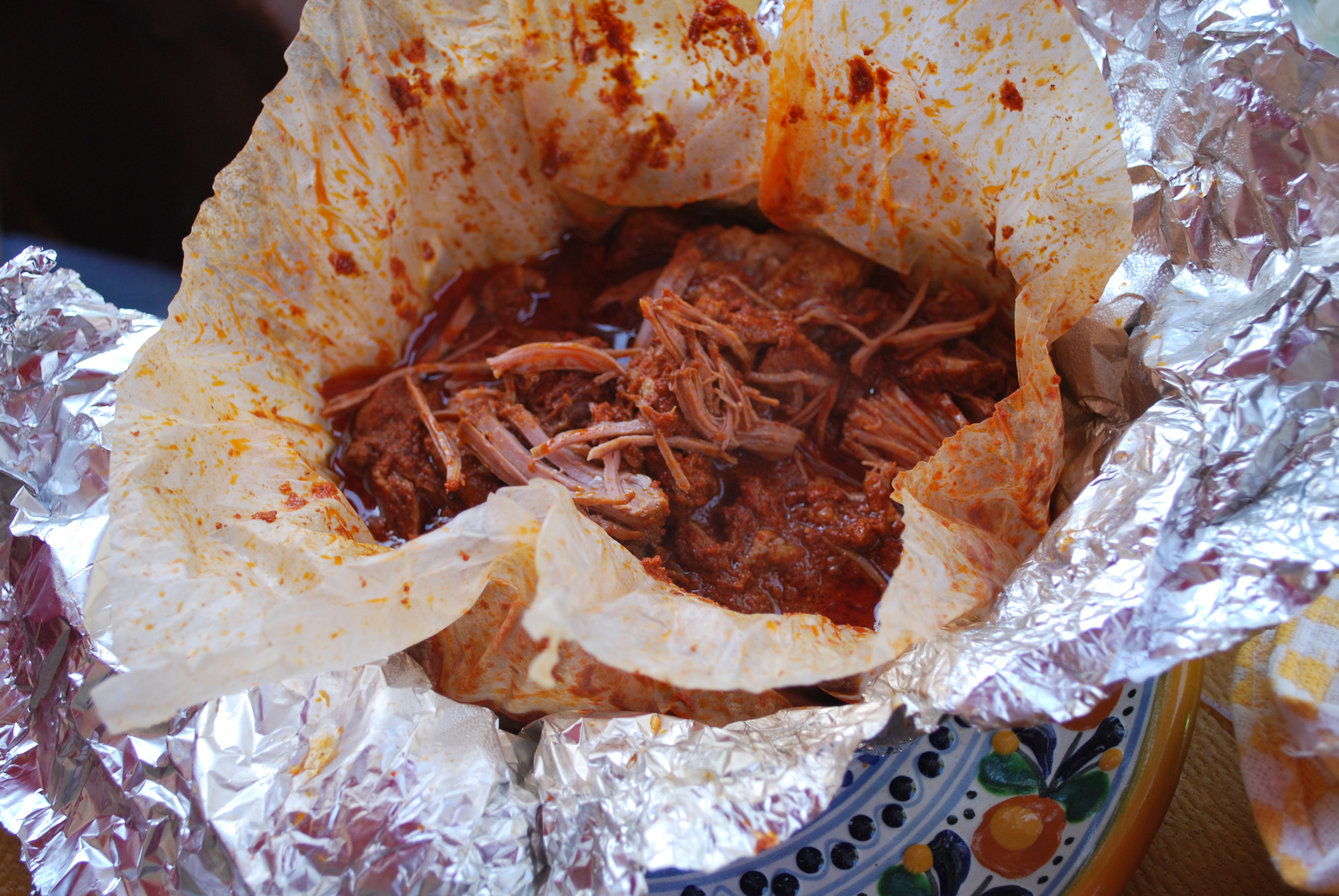 Mixed meat mixiote served at a restaurant in Tlaxcala city, Mexico